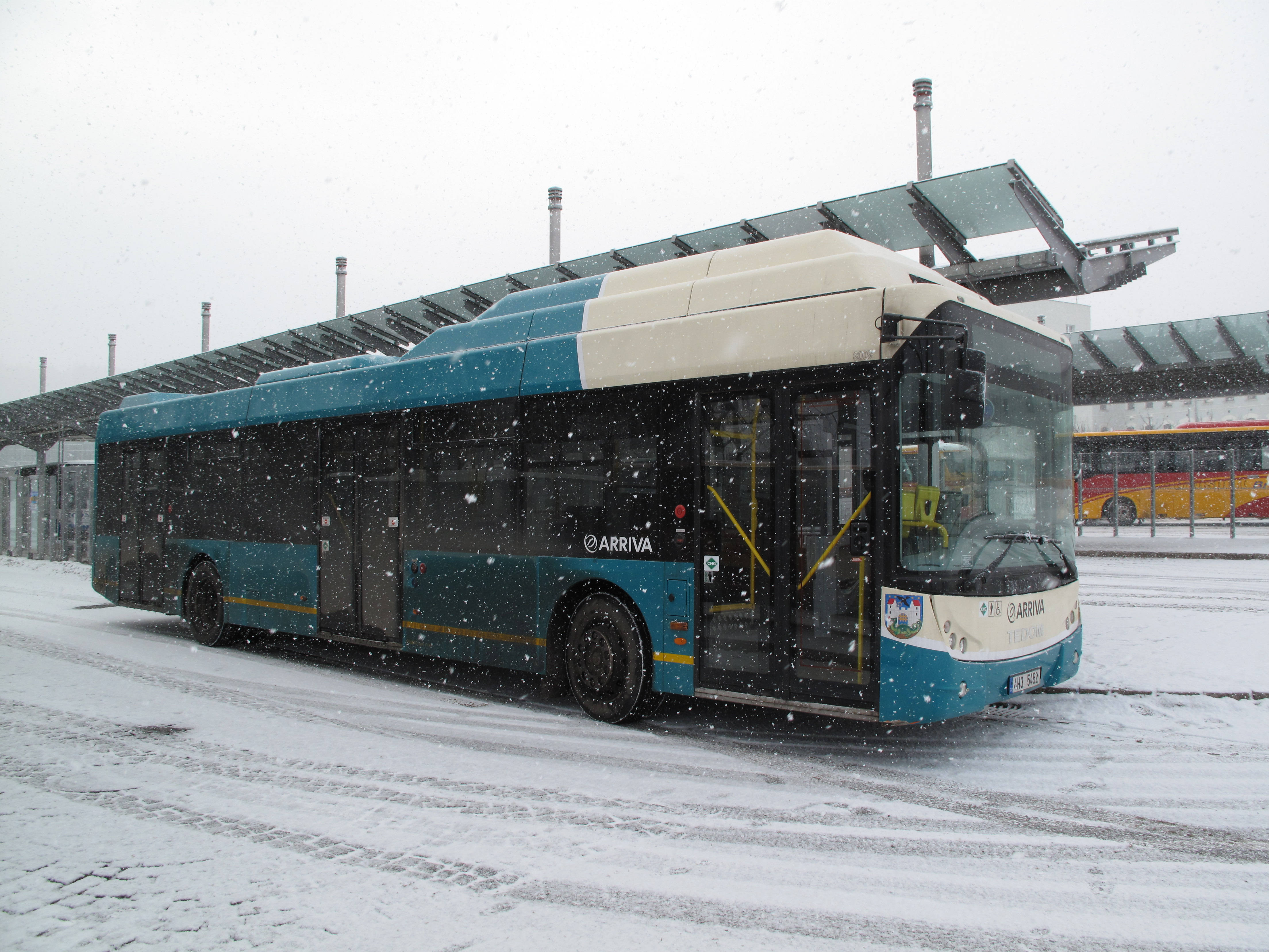 Tedom C12 CNG bus (reg. 6H3 5452) in Trutnov, Czech Republic.